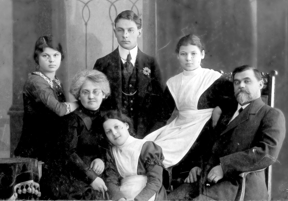 Family of Peotr Yakovlevich Rostovtsev